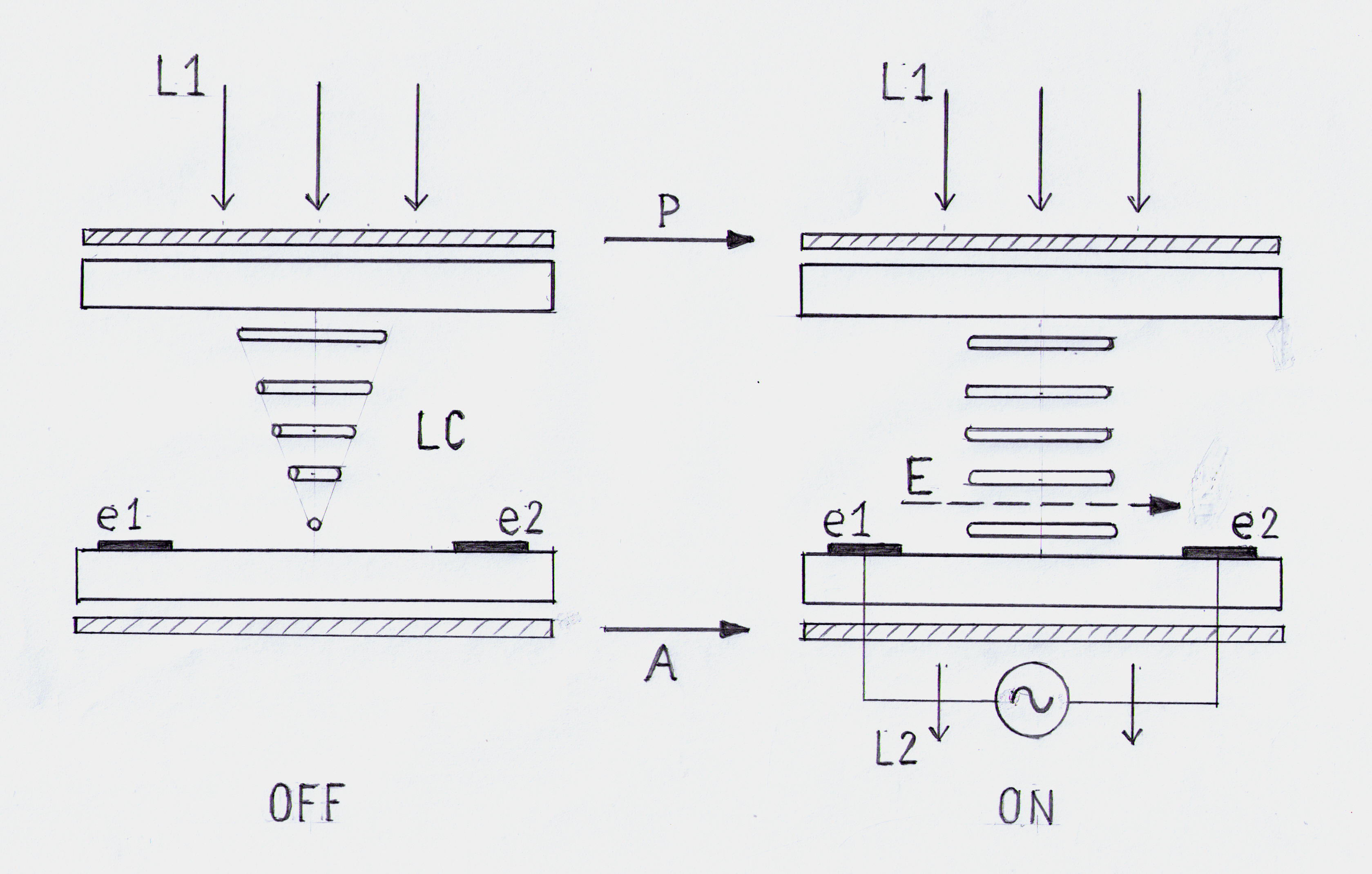 Schematic diagram of LCD with in-plane switching (IPS)